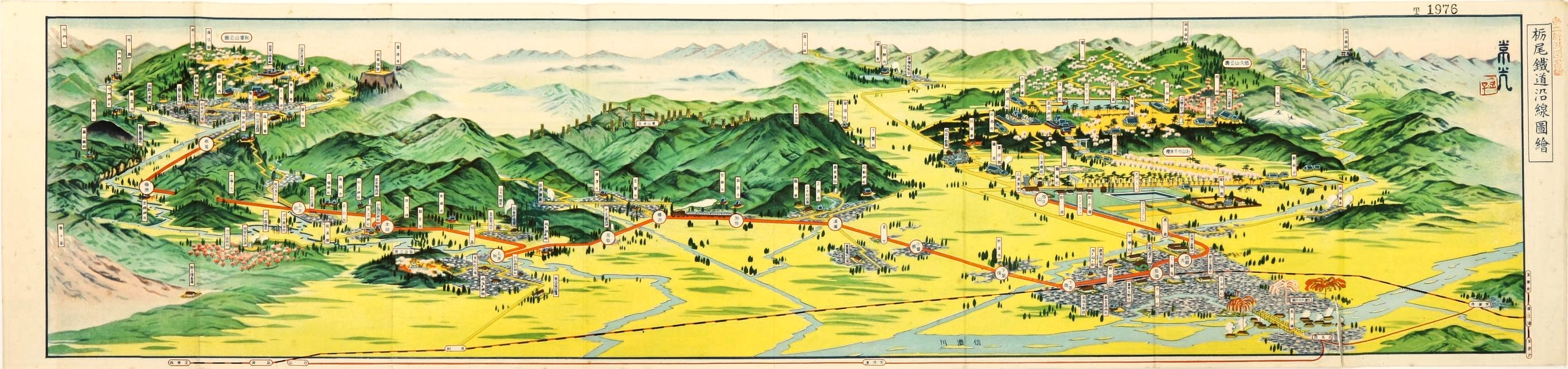 Picture of the along the Tochio Railway Line